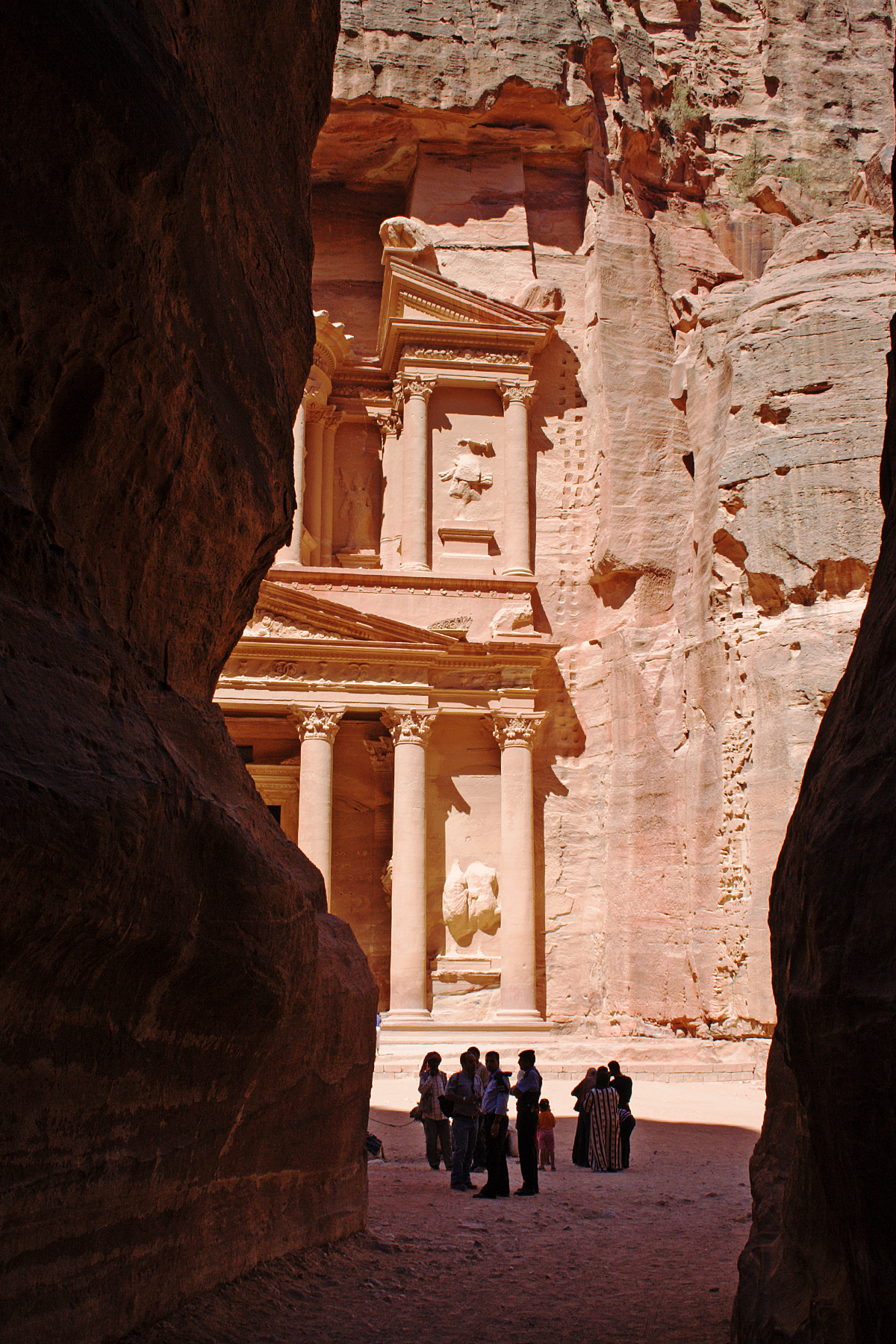 Exiting the Siq with a view of Petra's Treasury (al-Khazneh).